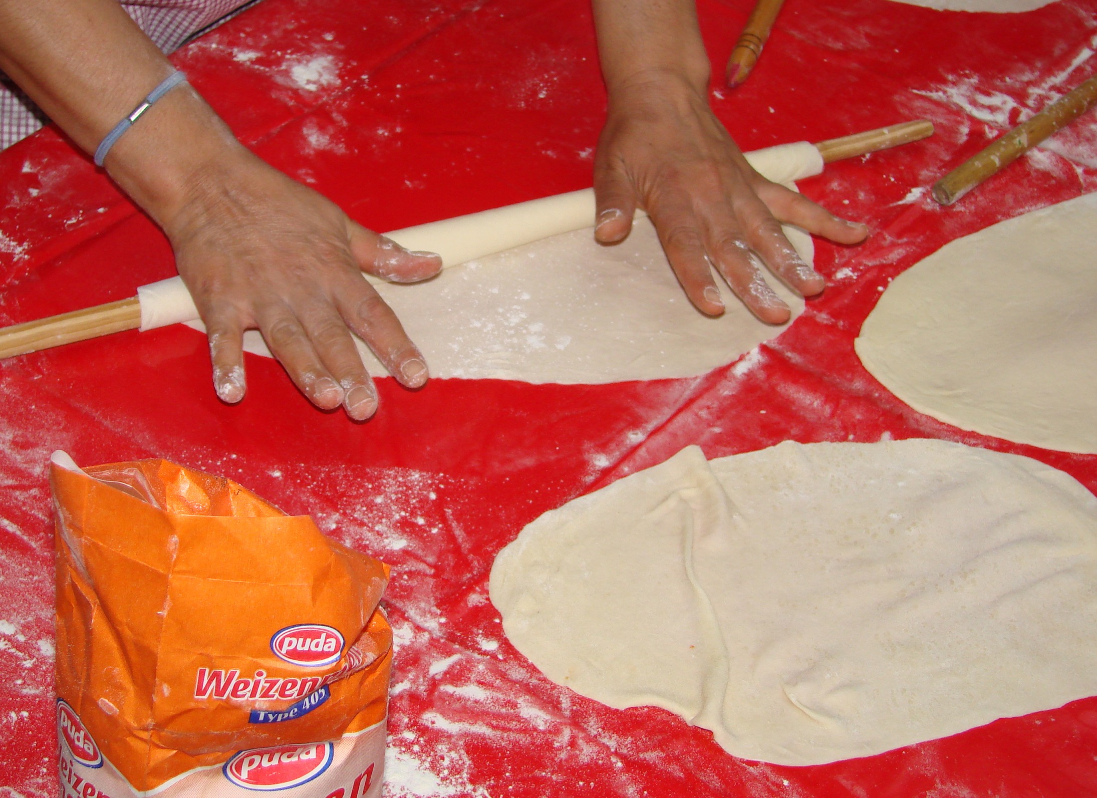 Rolling the dough for the preparation of "yufka", Turkish dough leaves, A.K.A. "filo"